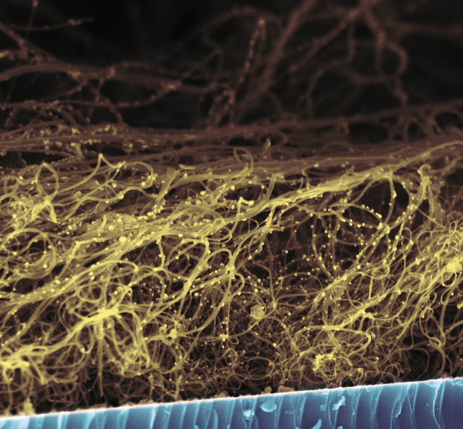 SEM image in cross section of a carbon nanotube film deposited on silicon. Au nanoparticles were deposited on carbon nanotubes.